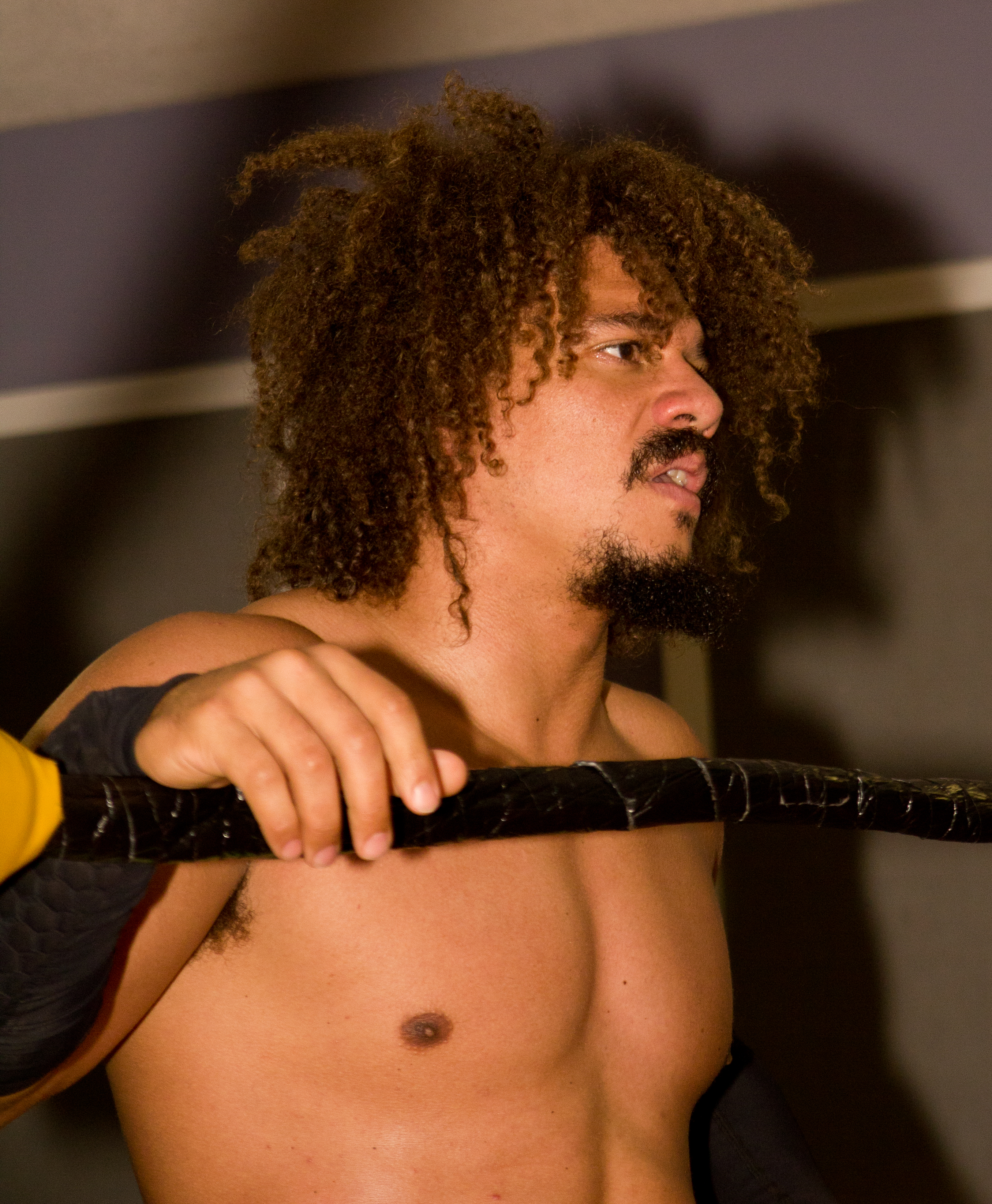 Carlito at Busted Knuckle Pro Wrestling's "Heat Stroke" event in Niagara Falls